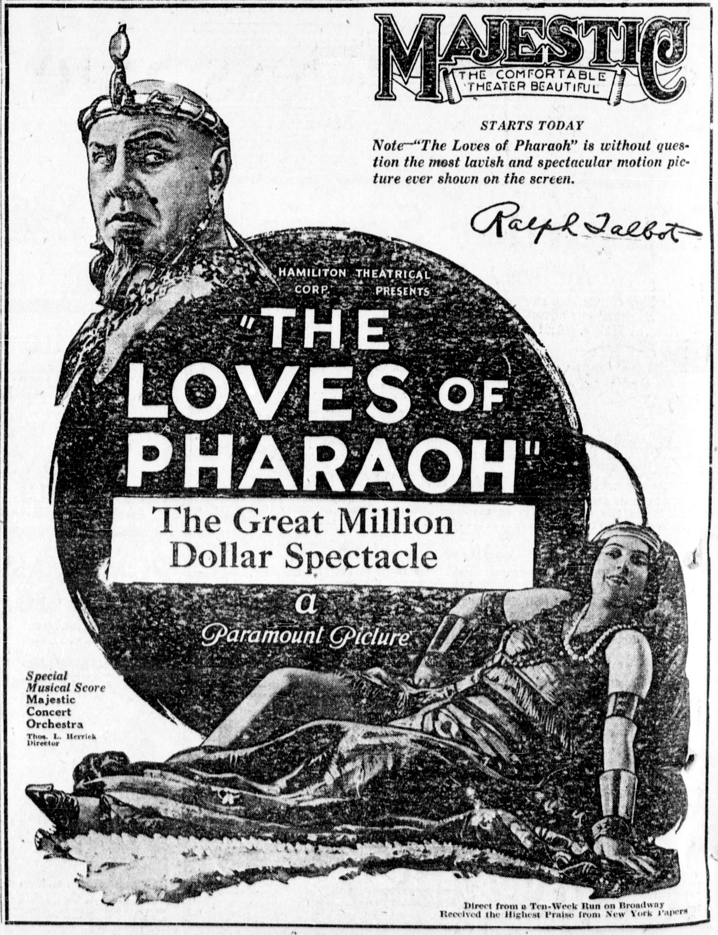 The Loves of Pharaoh (German: Das Weib des Pharao, aka The Wife of the Pharaoh) is a 1922 German historical epic film directed by Ernst Lubitsch. This is a newspaper advert for the American release.